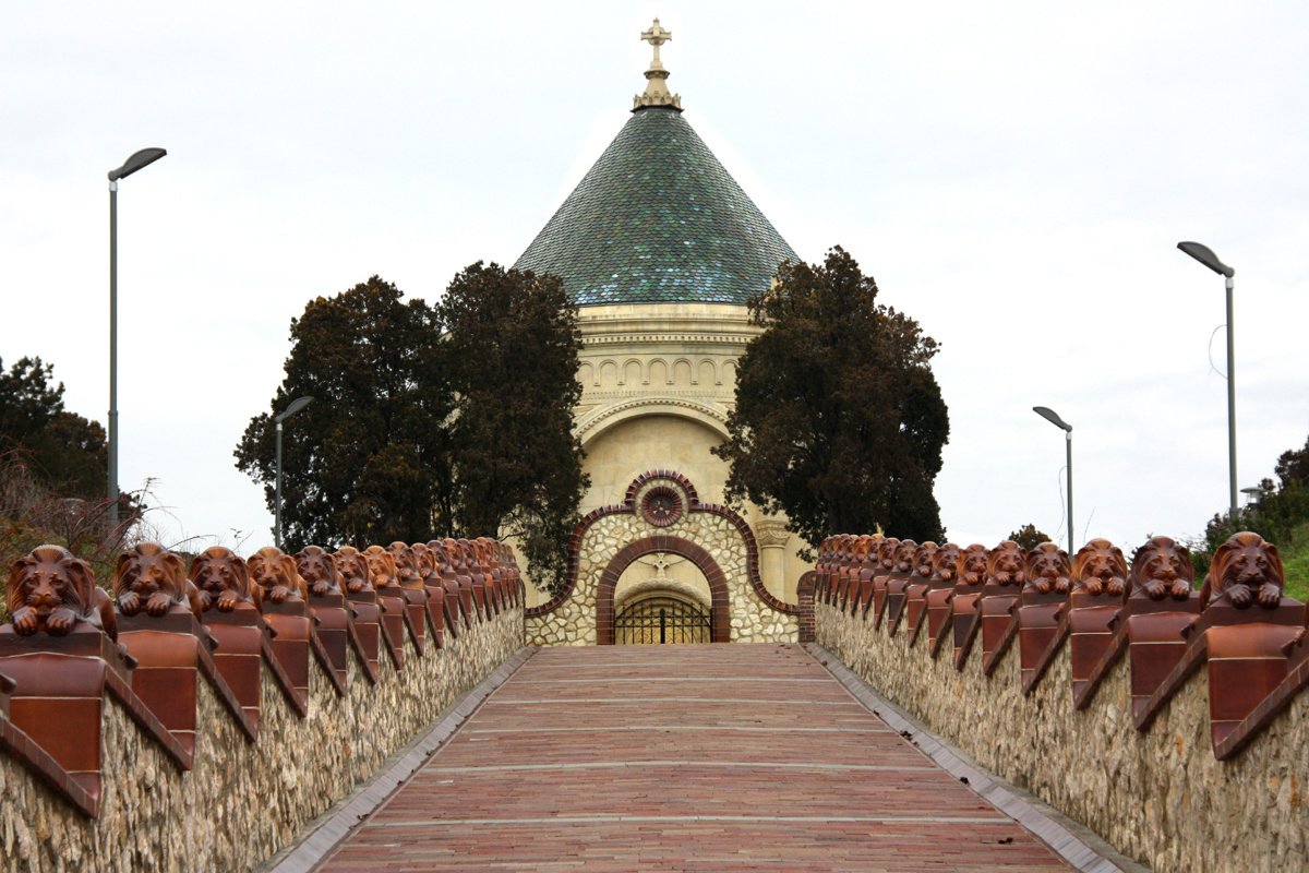 Zsolnay Mausoleum